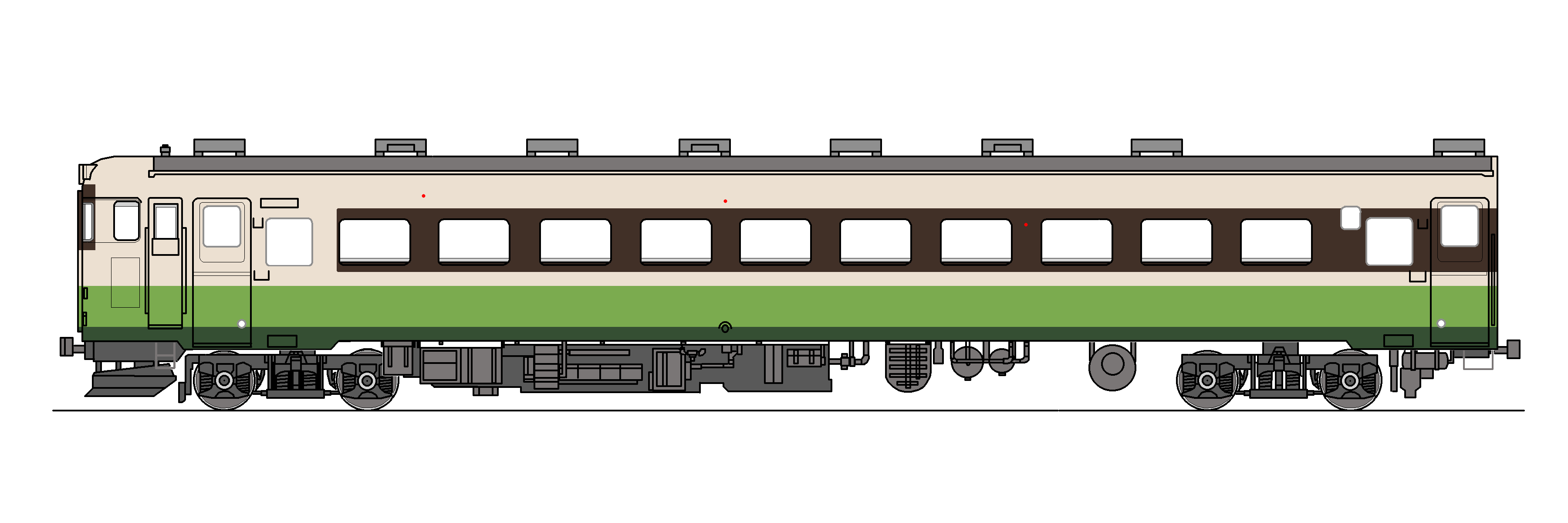 The side view of the DMU type 29 of JNR, Japanese style Car "Kyutsurogi".